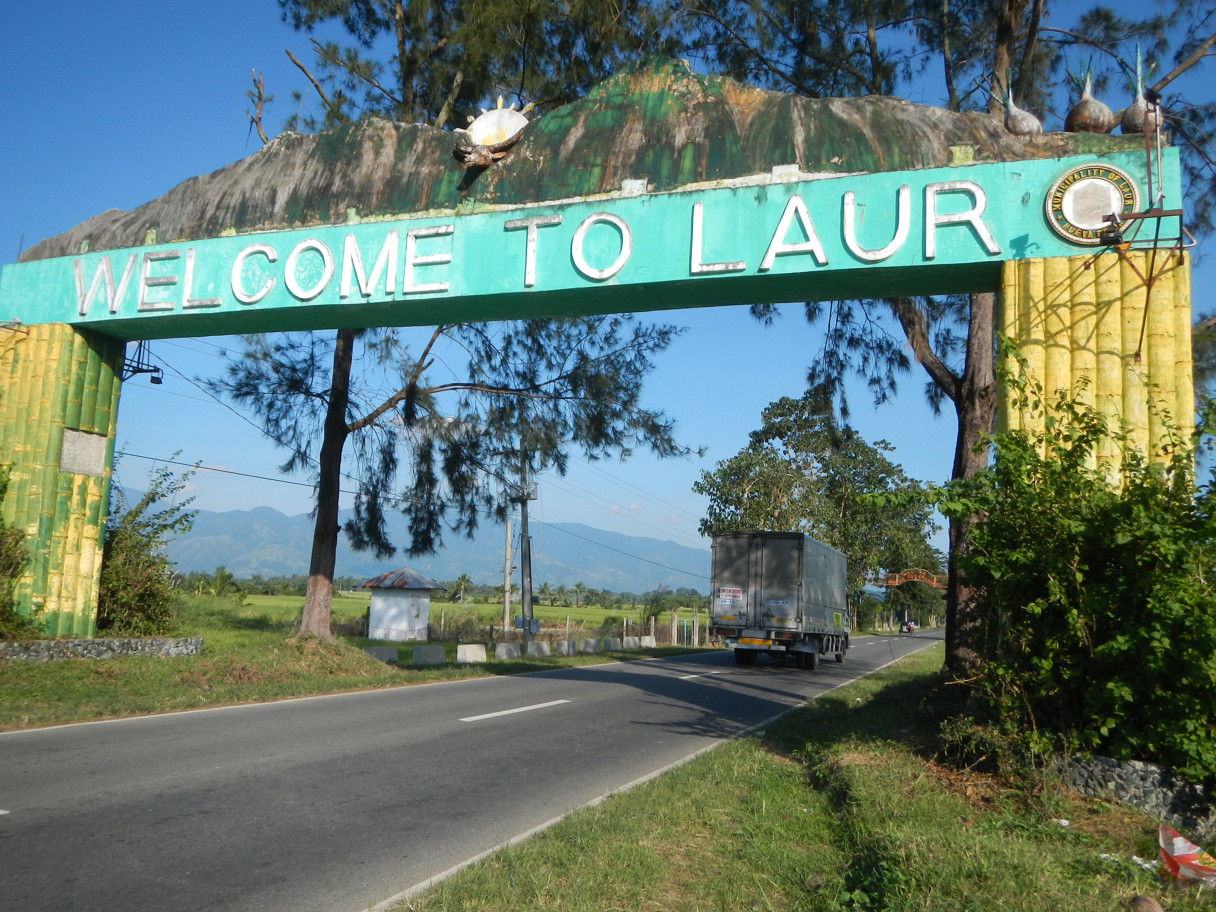 Laur, Nueva Ecija Welcome Arch in Palayan City), is located between Barangay San Josef (a.k.a. Ariendo), towards Sagana and beside Barangay III (Poblacion), Laur, Nueva Ecija, where the landmark Laur Town Hall in Nueva Ecija stands and Barangay Imelda Valley, Palayan City, Nueva Ecija along the Laur-Gabaldon, Nueva Ecija Road, connecting from the Nueva Ecija-Aurora Road (Cabanatuan-Palayan City section) from the Pan-Philippine Highway, also known as the Maharlika "Nobility/freeman" Highway in Cagayan Valley Road).